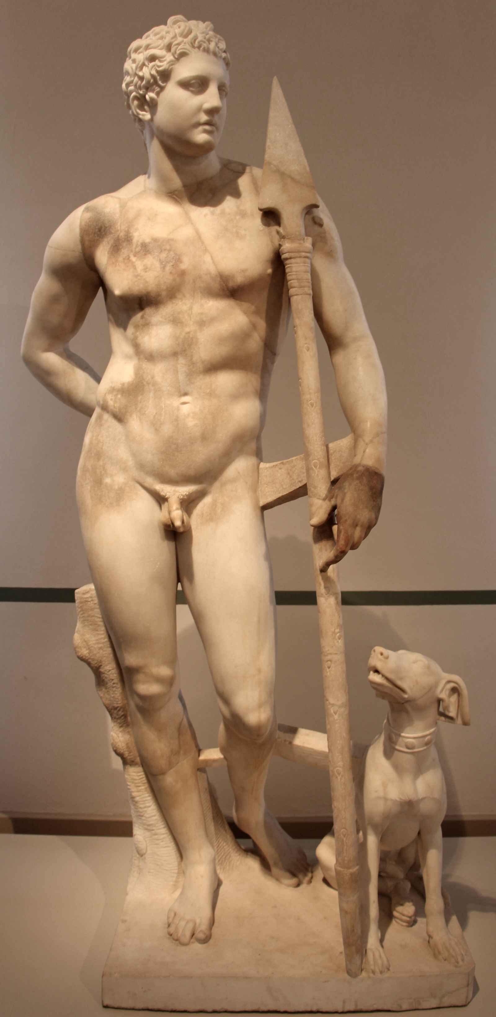 Ancient Roman statues in the Antikensammlung Berlin